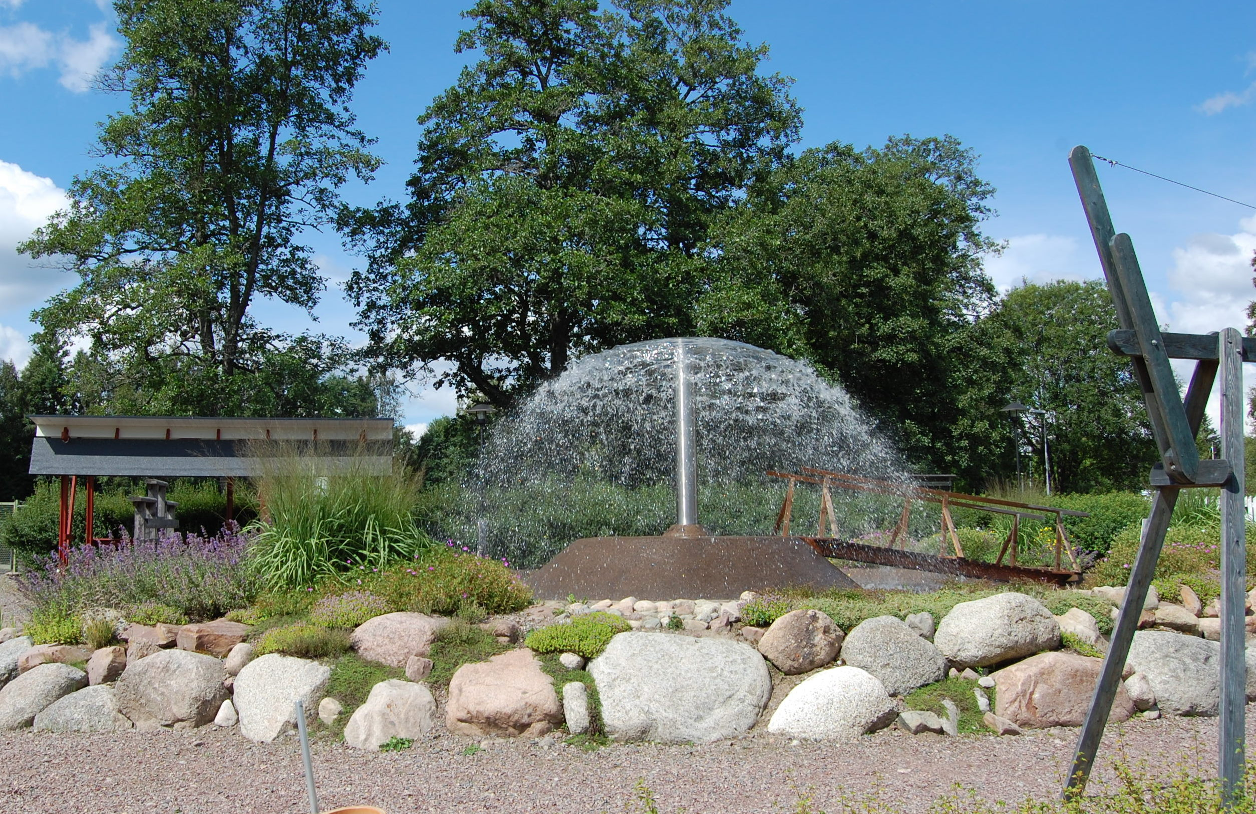 Wasserspielplatz auf dem Gelände des Ekomuseum Eman